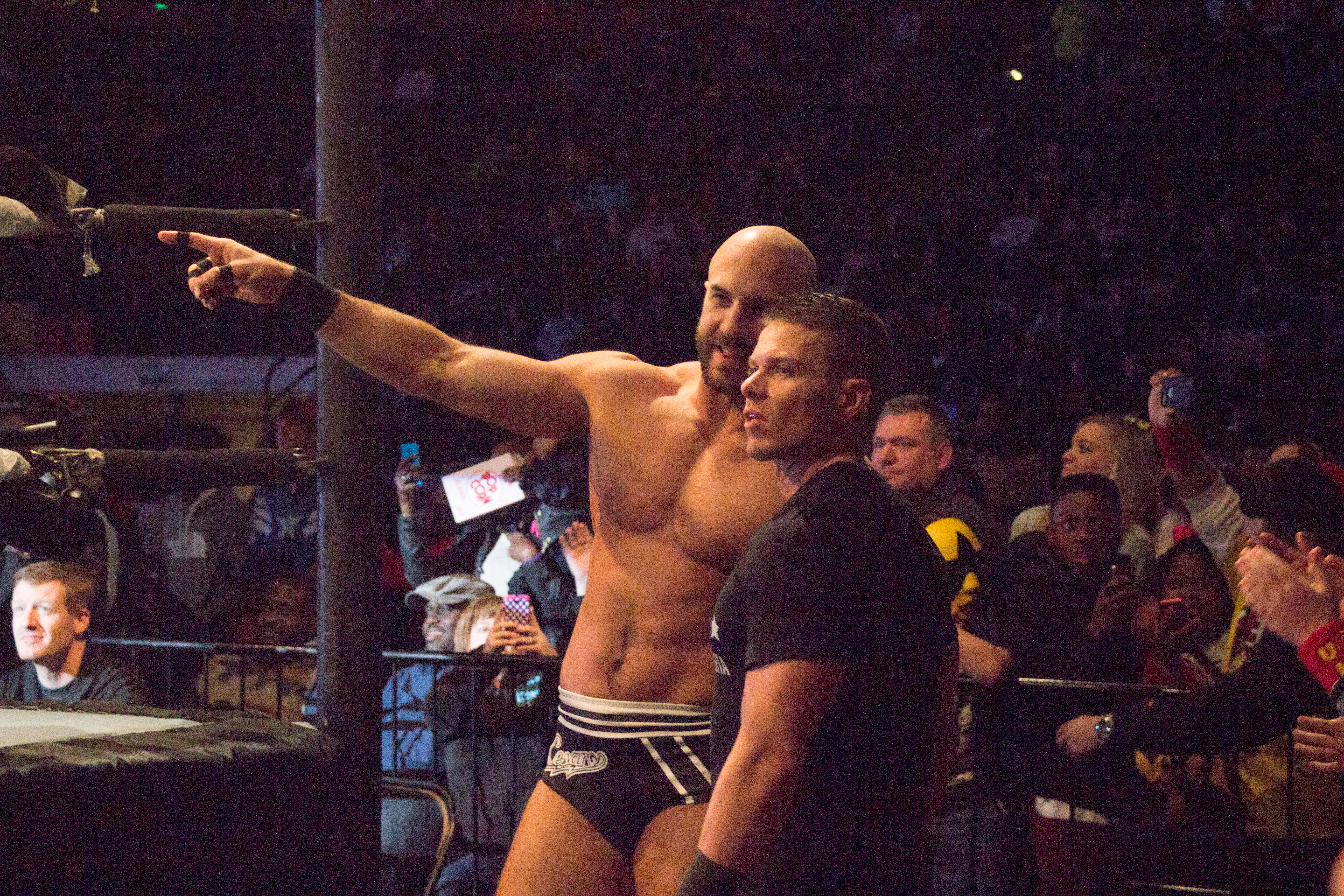 Cesaro and Kidd at House Show in 2015.